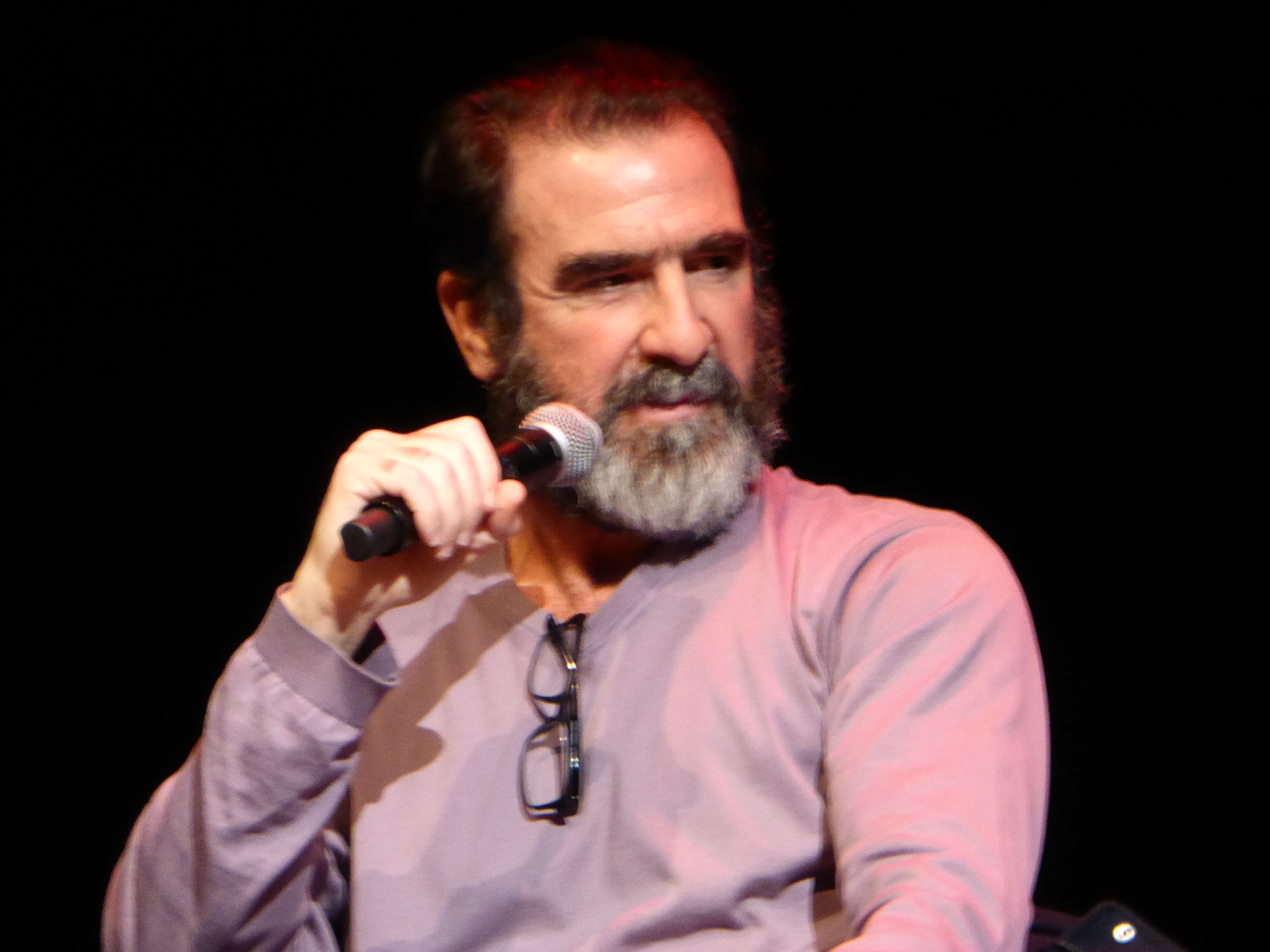 Eric Cantona, The Lowry, Salford, Greater Manchester, England, February 2017